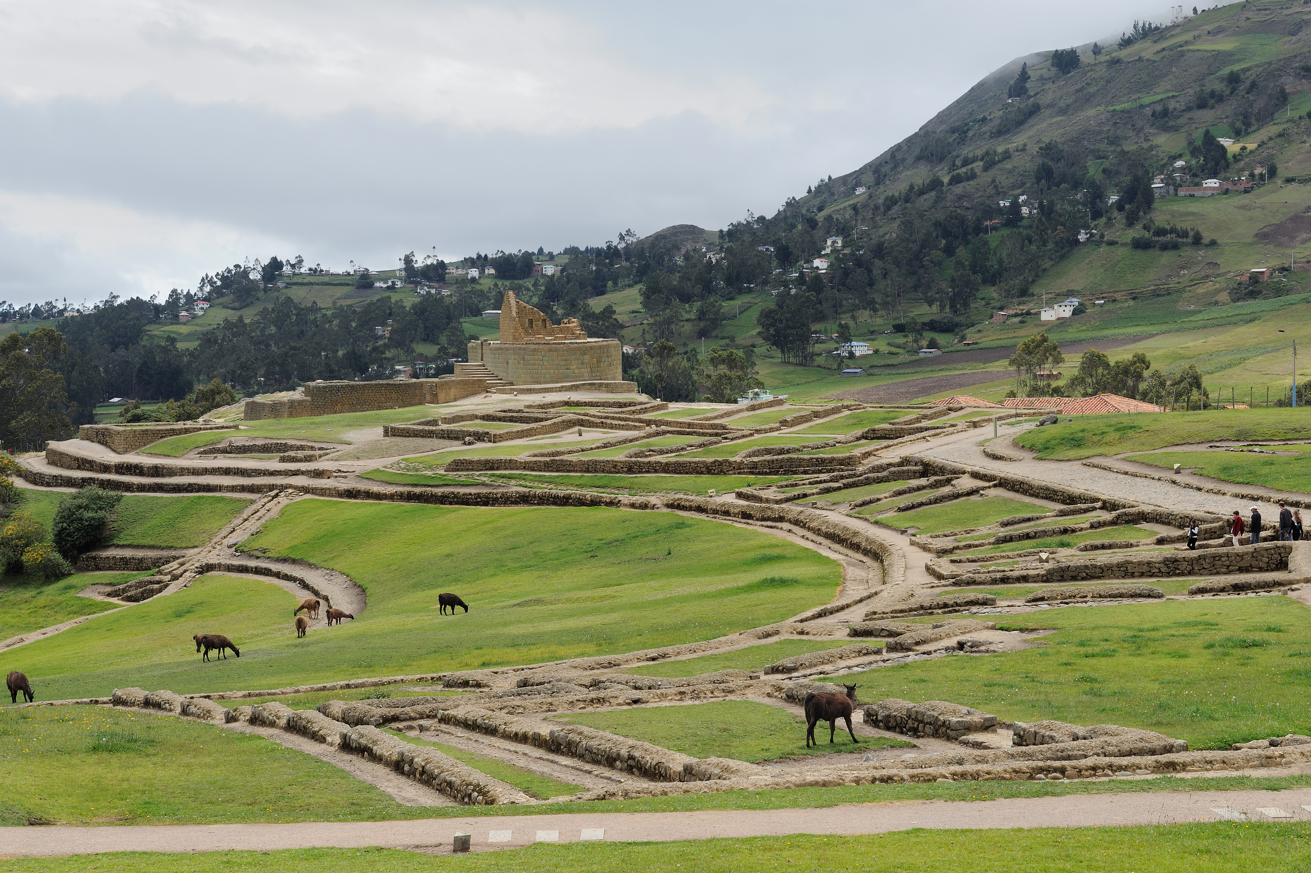 Ingapirca, Ecuador: Ruins of the Cañari-Inca civilisations.